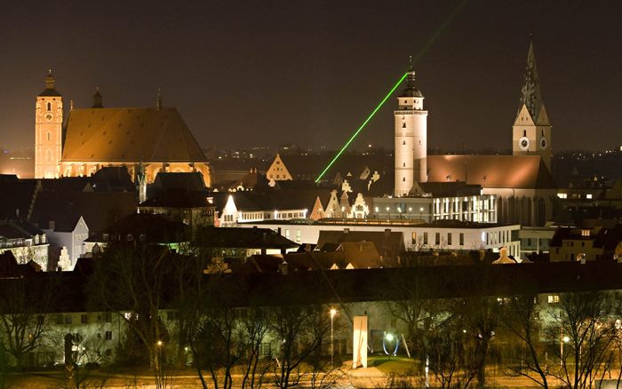 Lightart Happening from the Theresienstraße 23 in Ingolstadt.